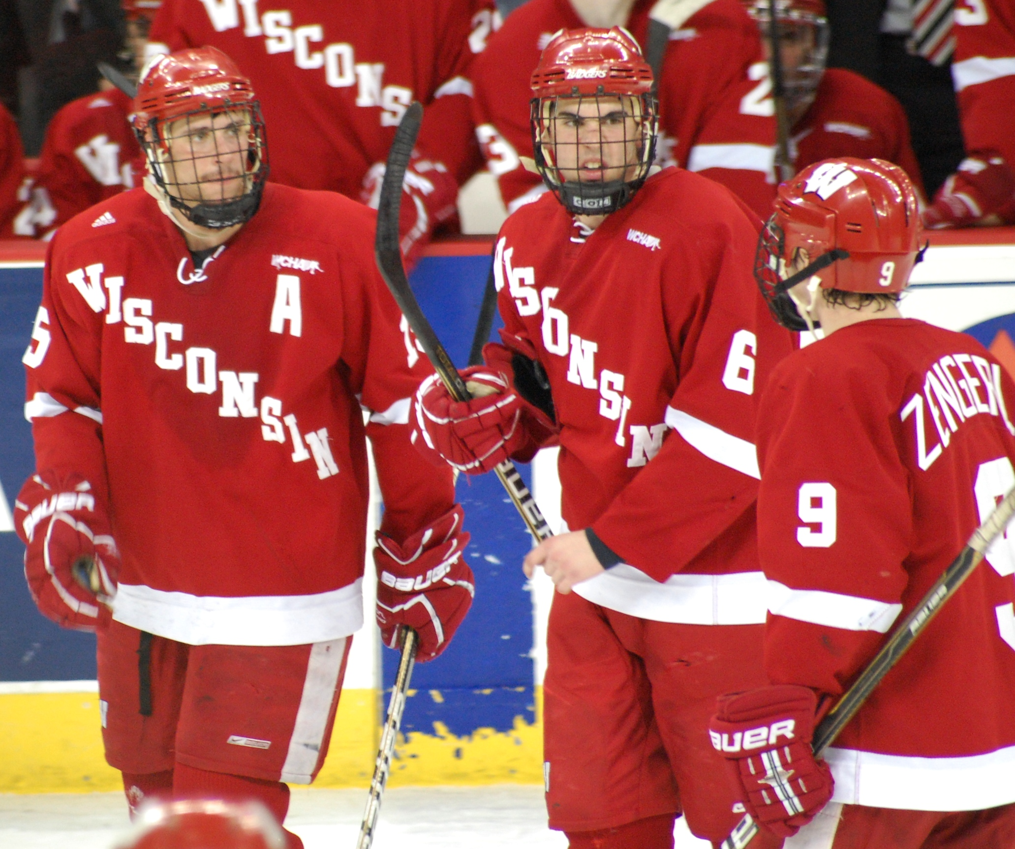 Wisconsin Badgers at Omaha Mavericks, February 11, 2011